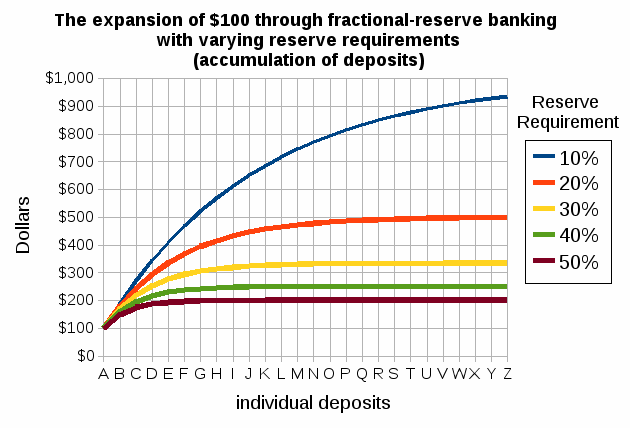 The expansion of $100 through fractional-reserve banking with varying reserve requirements. Created with Calc. Data obtained by using information from the Federal Reserve Bank of New York which explains how the process of fractional-reserve banking creates new money. See the description of the process on this page: It says: Reserve requirements affect the potential of the banking system to create transaction deposits. If the reserve requirement is 10%, for example, a bank that receives a $100 deposit may lend out $90 of that deposit. If the borrower then writes a check to someone who deposits the $90, the bank receiving that deposit can lend out $81. As the process continues, the banking system can expand the initial deposit of $100 into a maximum of $1,000 of money ($100+$90+81+$72.90+...=$1,000). In contrast, with a 20% reserve requirement, the banking system would be able to expand the initial $100 deposit into a maximum of $500 ($100+$80+$64+$51.20+...=$500). Thus, higher reserve requirements should result in reduced money creation and, in turn, in reduced economic activity.